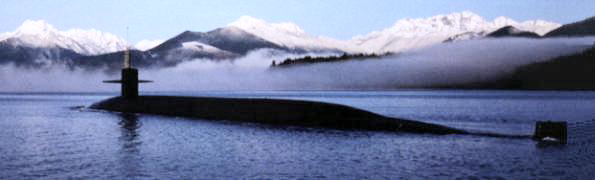 A enhanced (brighter) version of Image:USS Florida (SSGN-728);Boat.jpg